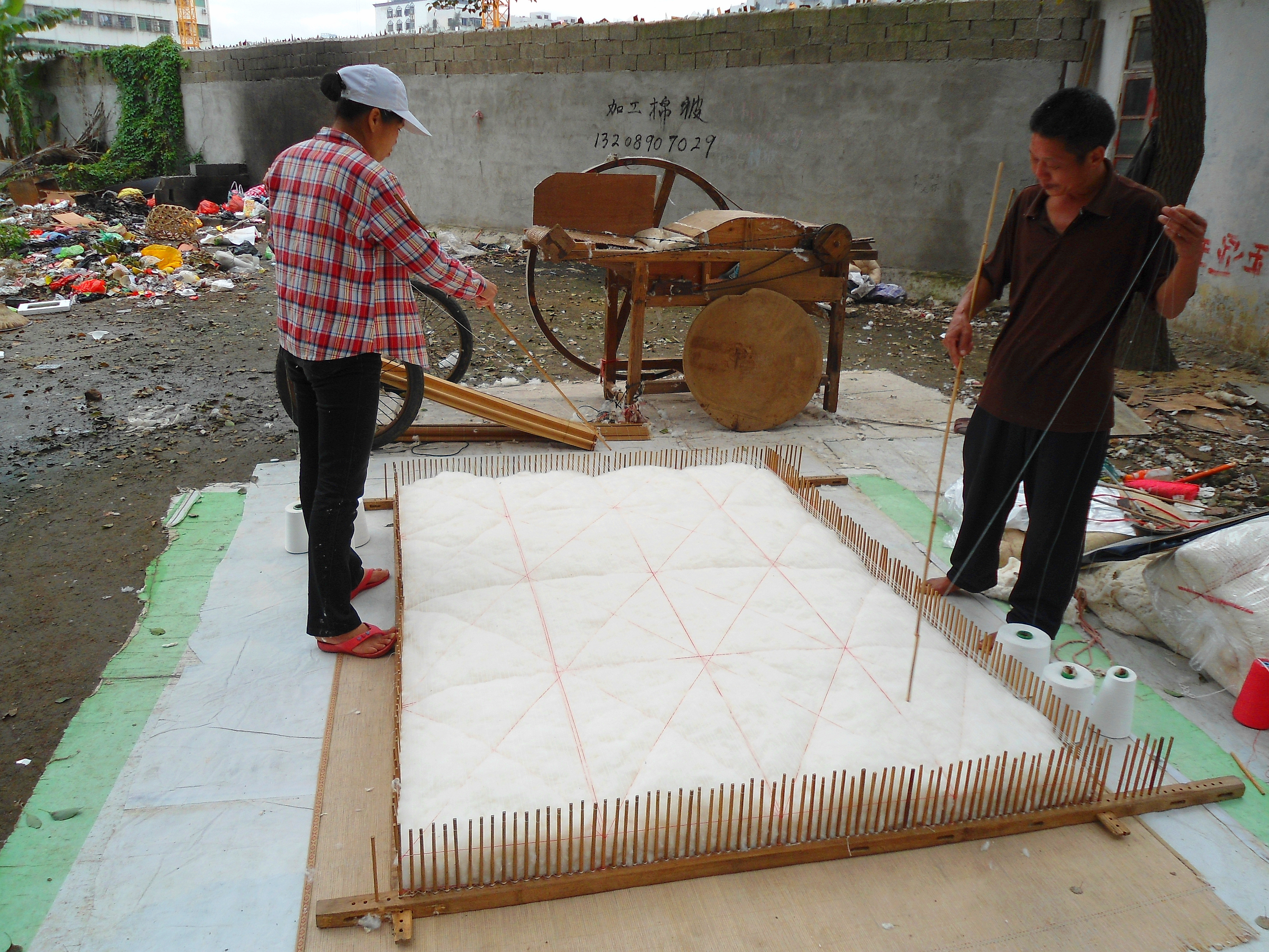 Blanket making in Haikou, Hainan, People's Republic of China. Quilt makers cover the cotton batting with a lattice of thread. The thread is fed through two holes at and near the tip of a long, bamboo stick. The stick is then used to loop the thread around the vertical pegs.